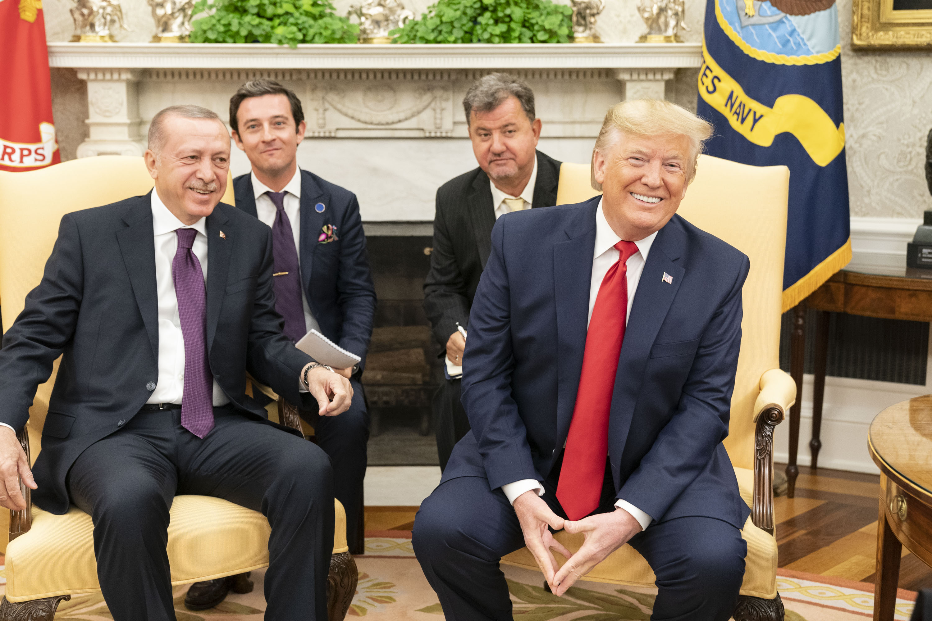 President Donald J. Trump meets with Turkish President Recep Tayyip Erdogan Wednesday, Nov. 13, 2019, in the Oval Office of the White House. (Official White House Photo by Shealah Craighead)